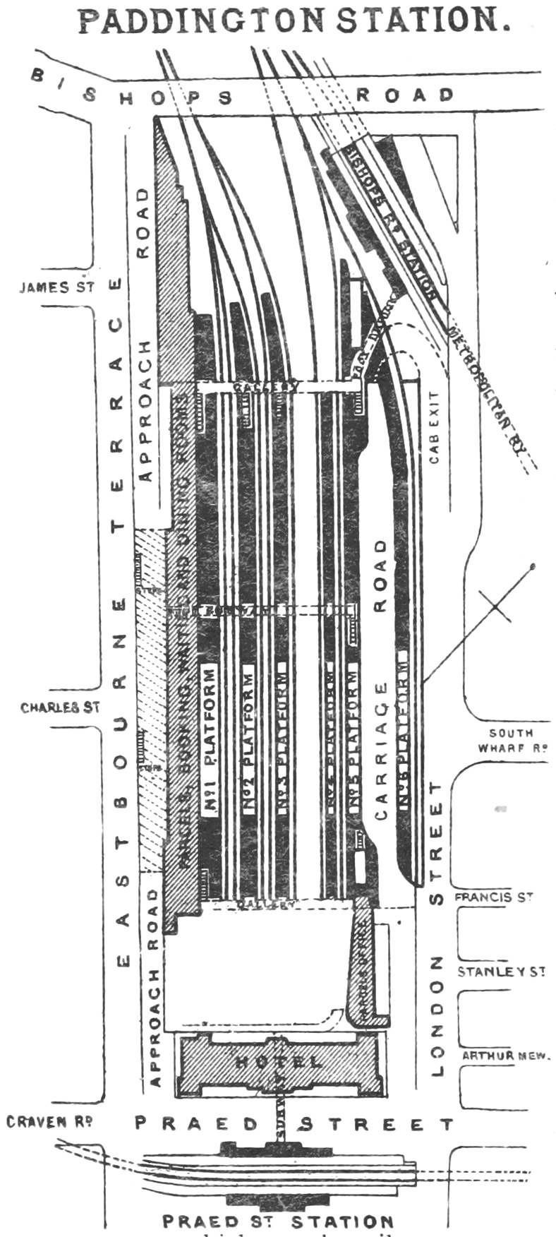 Plan of Paddington Station as it was in 1888.